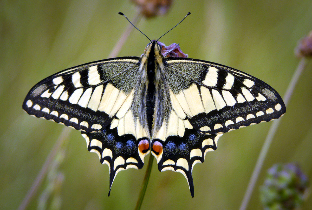 Papilio machaon - photographed at central Europe, summer 2009